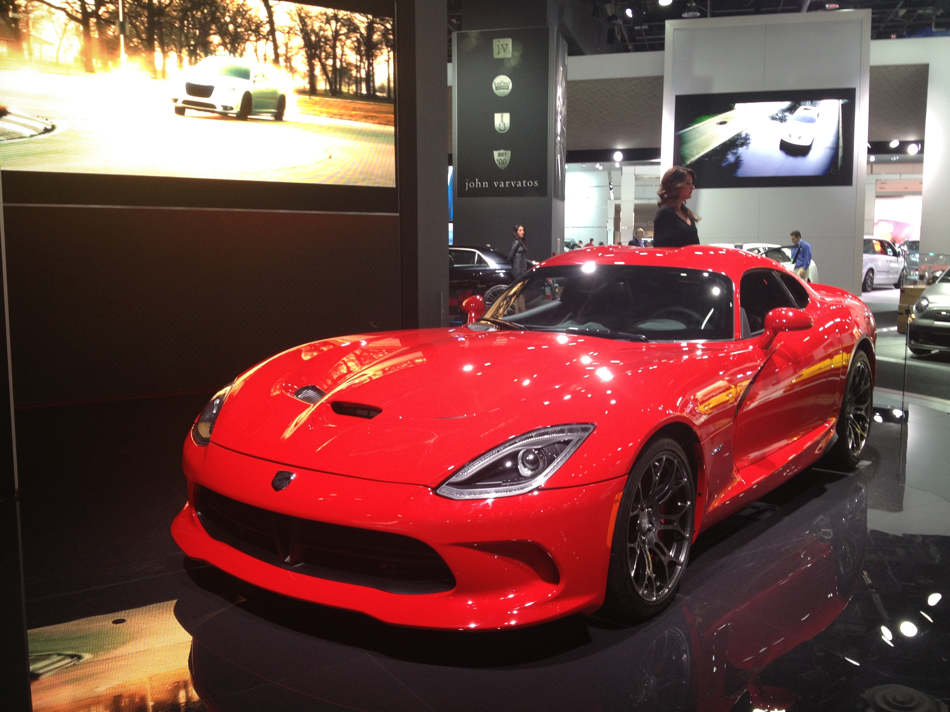 Una SRT Viper rossa al North American International Auto Show Detroit, Michigan